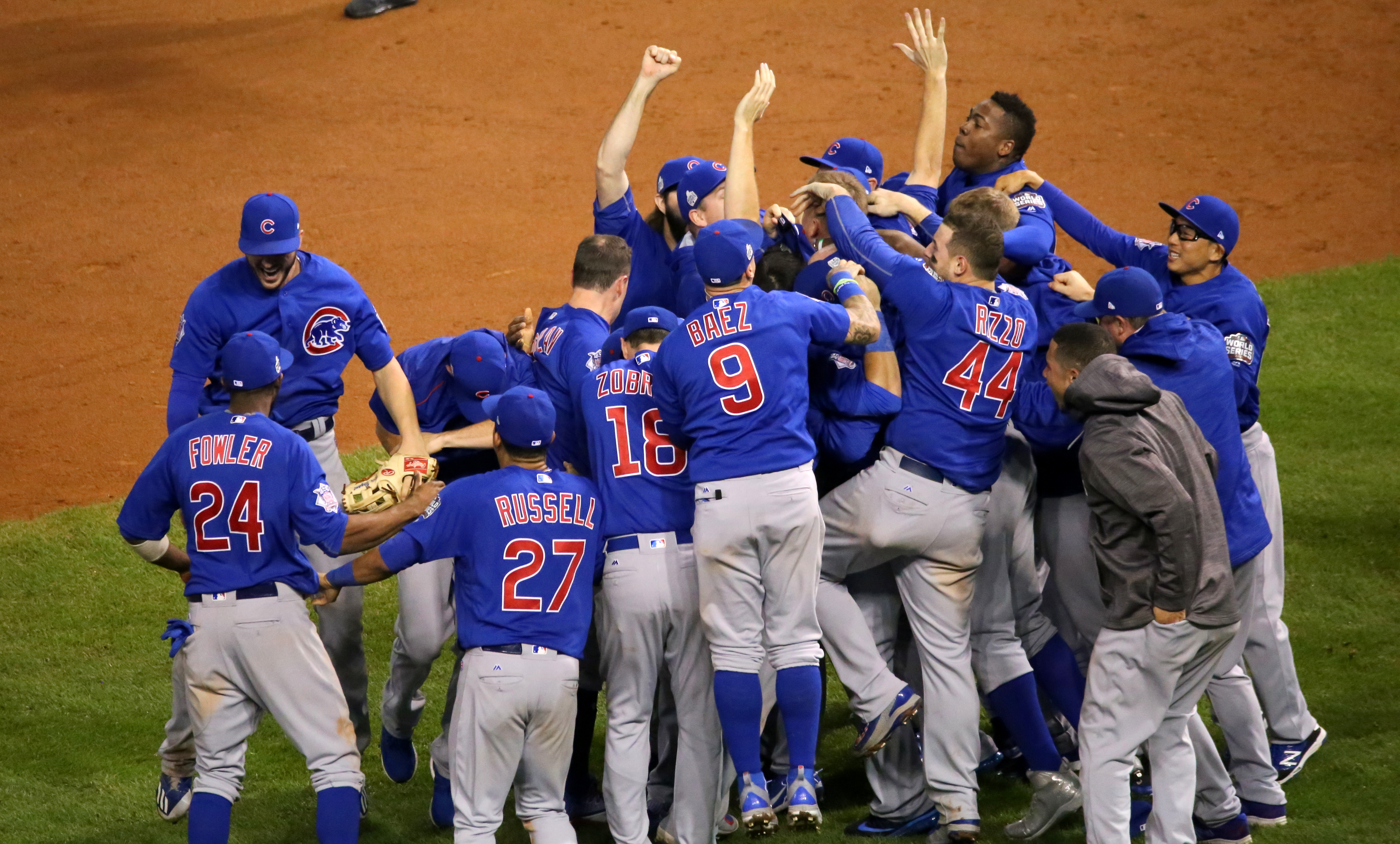 The Chicago Cubs celebrate their first World Series championship since 1908.